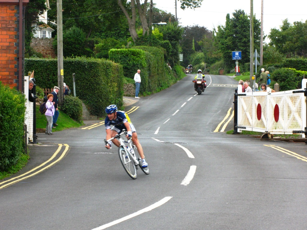 Borut Bozic of Team Vacansoleil Pro Cycling leads the sprint over the level crossing at Blue Anchor during Stage 4 of the Tour of Britain cycle race on 14 September 2010.